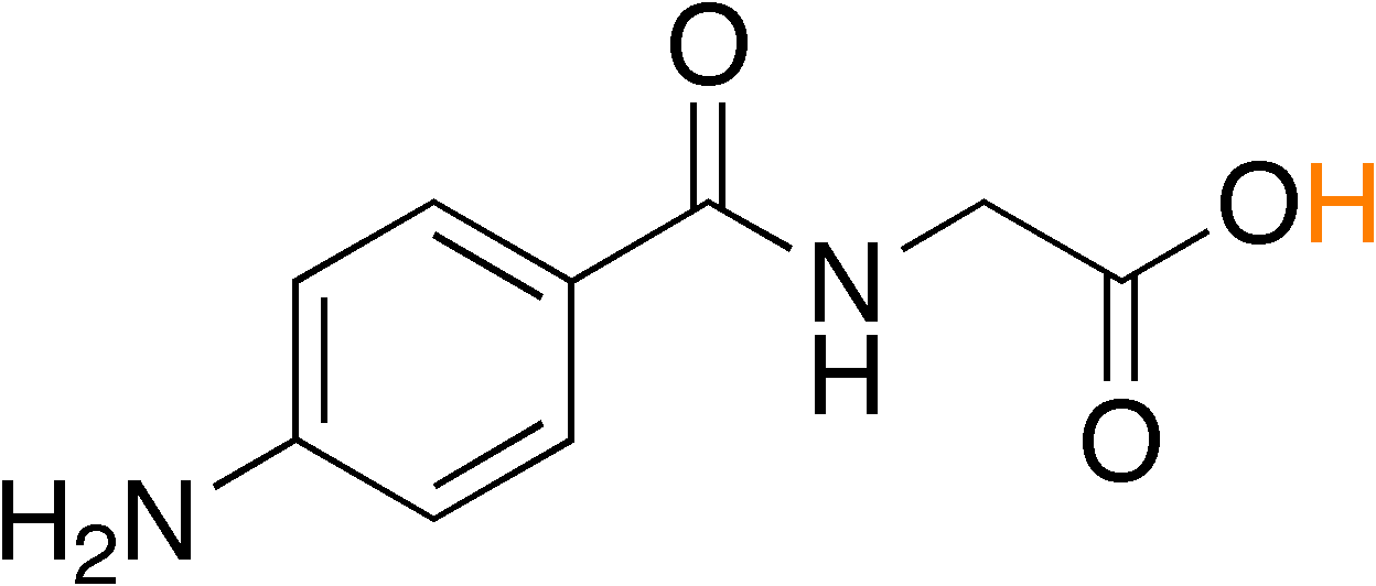 Modified from Aminohippuric_acid.png on Wikipedia. KBlott (talk) 22:13, 20 September 2010 (UTC)